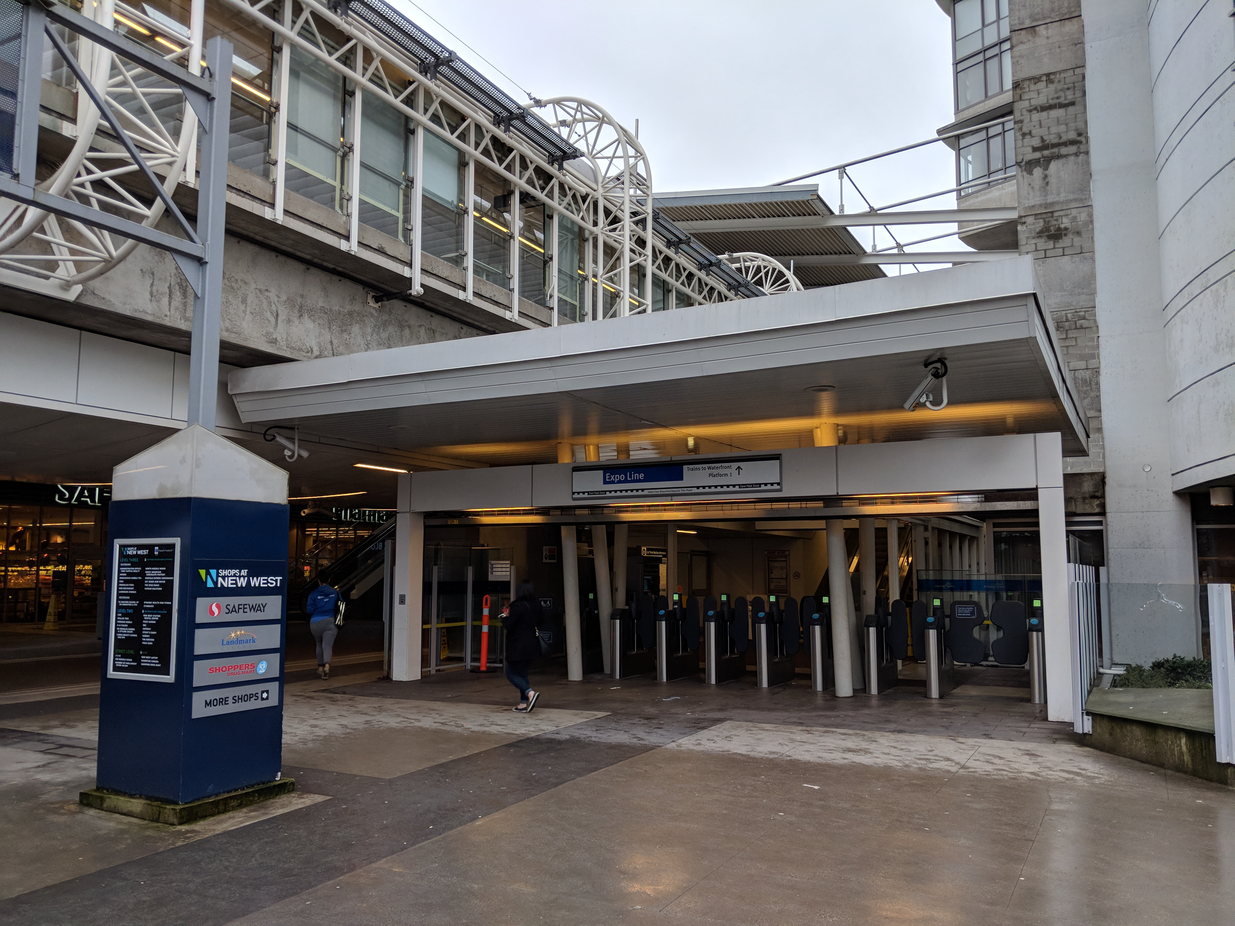 8th Street entrance of New Westminster station. This entrance provices access to Platform 1 trains bound for Waterfront in Vancouver.